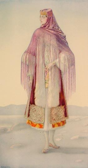 Greek Peasant Woman's Bridal Dress (Dodecanese, Kastellorizo) - Greek Costume Collection by NICOLAS SPERLING (Russia 1881-1940 / act: Athens).